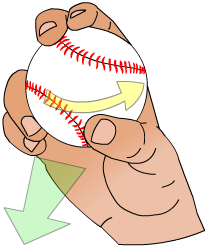 This image was made to represent the grip used in a slider pitch. The image was created by taking an image of my hand with a baseball and then tracing it.